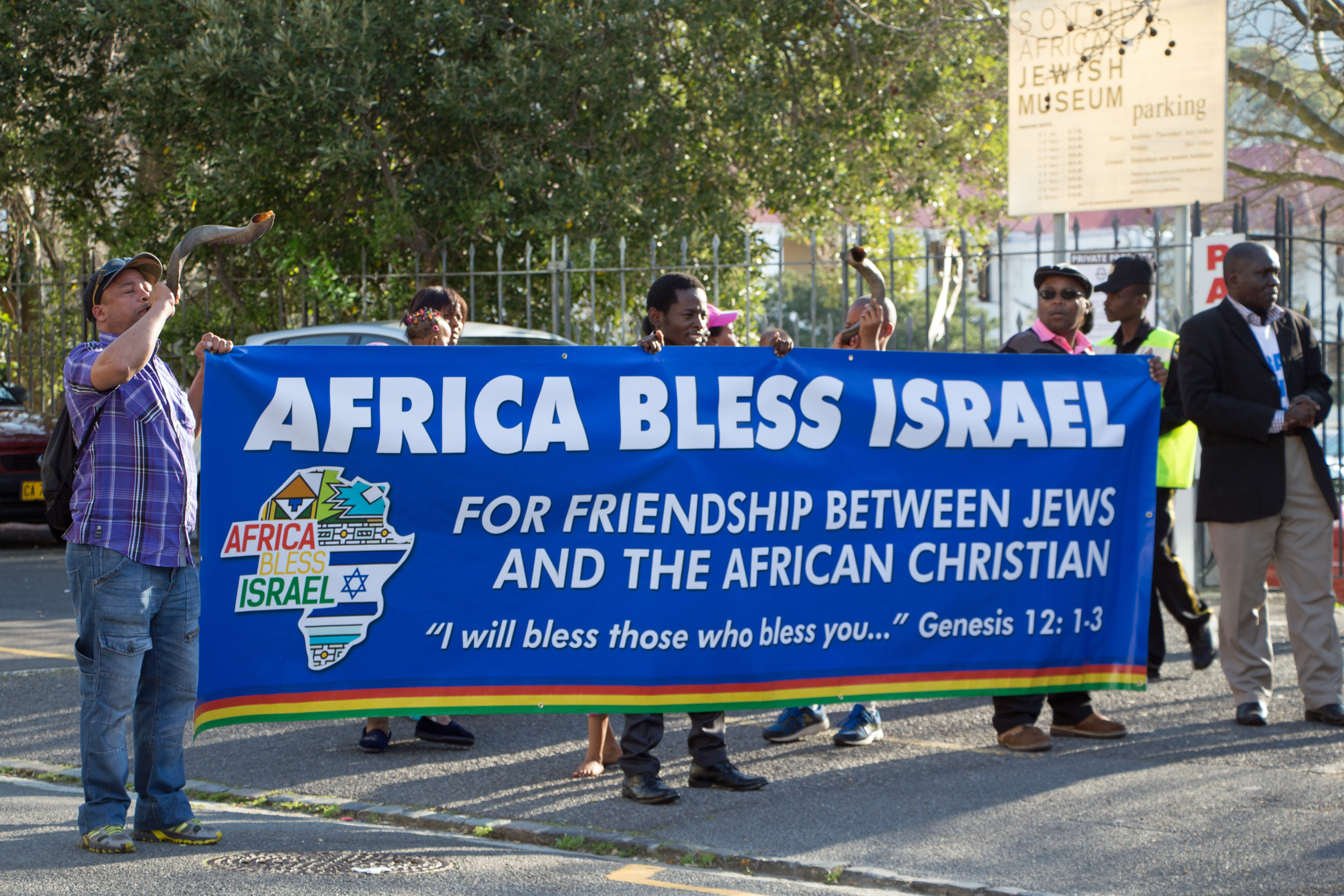 2014 Israel–Gaza conflict: On Saturday 9 August 2014, the National Coalition for Palestine called a pro-Palestine march in Cape Town. On the following day, the South African Zionist Federation held a Solidarity Rally for Israel in Hatfield Street in Cape Town, and pro-Palestine protesters came out again to show their support for Palestine. These Israel supporters were photographed in Hatfield Street. (News article)